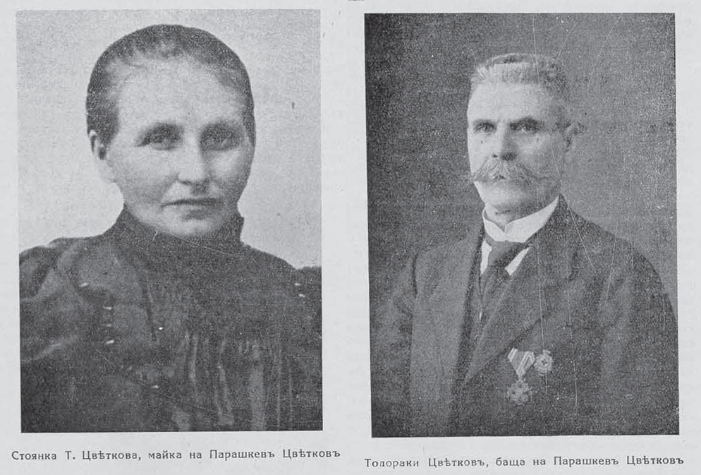 Parashkev Tsvetkov parents